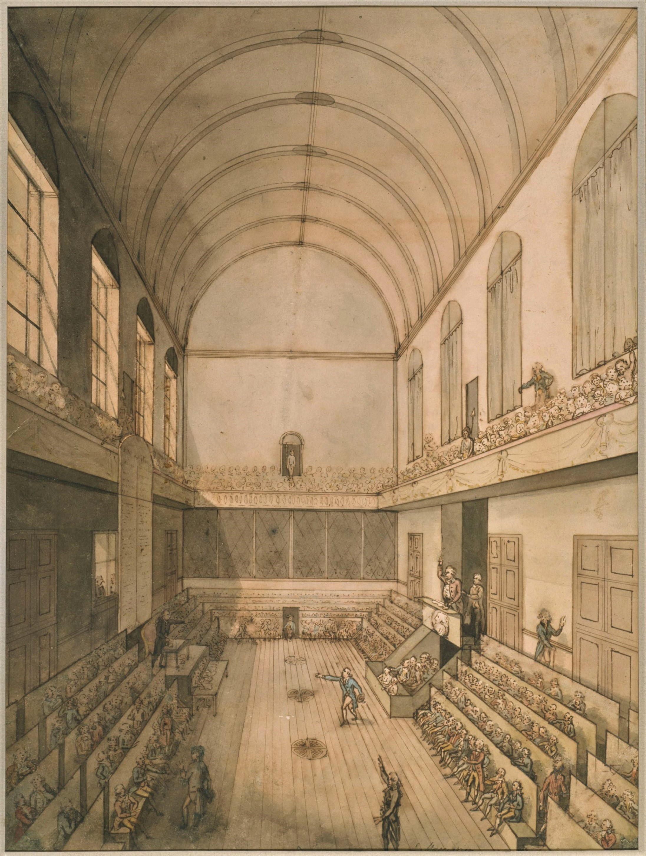 The Salle du Manège in Paris, France, during the French Revolution.